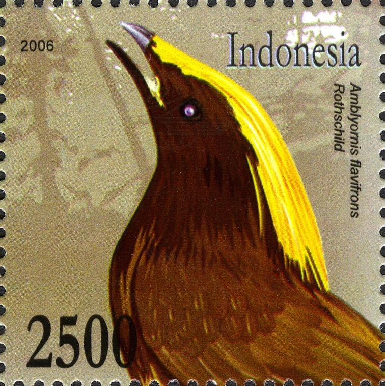 Stamps of Indonesia